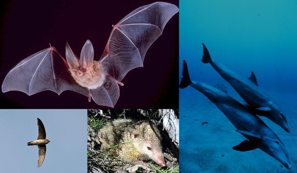 Echolocating animals. Clockwise starting with the dolphin: Tursiops truncatus, Tenrec ecaudatus, Aerodramus maximus, Corynorhinus townsendii.